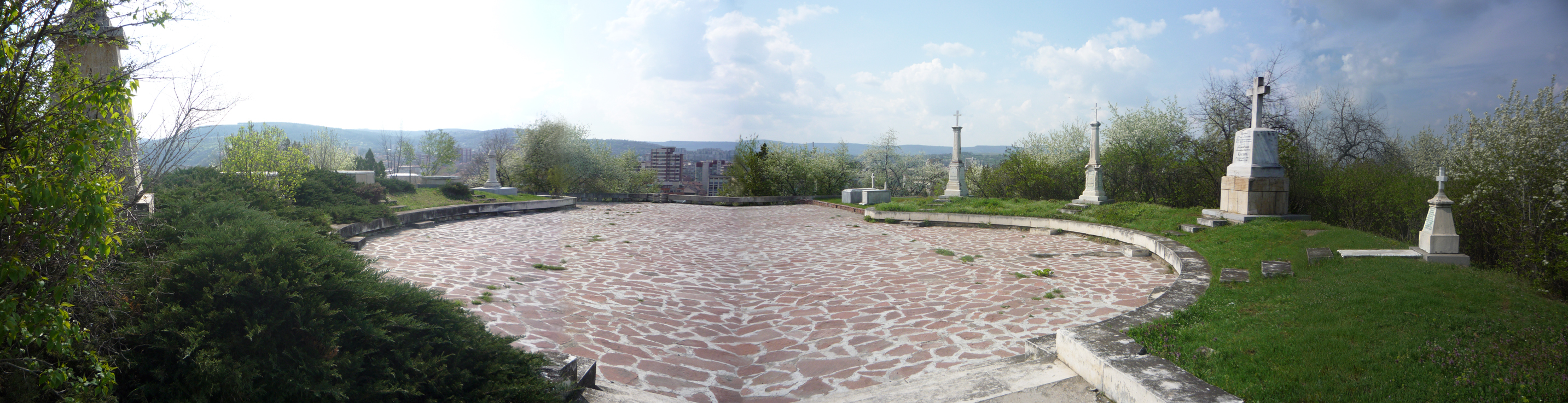 Alley of Bulgarian-Russian friendship Hill Stratesh in Lovech. Monuments of Russian soldiers died in the liberation from Ottoman rule Lovech on 22 August 1877.